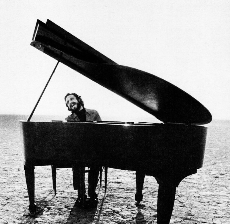 Trade ad for Barry Mann's single "Nobody But You". To better adapt it to his respective Wikipedia article, the ad was cropped and cleaned in a graphics editing program. The original can be viewed at the source below.